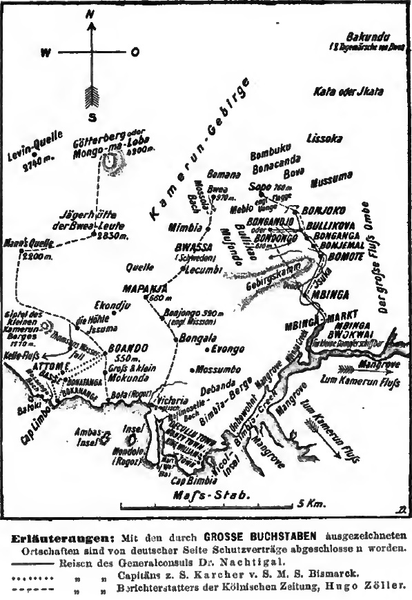 Mount Cameroon on an old german map.